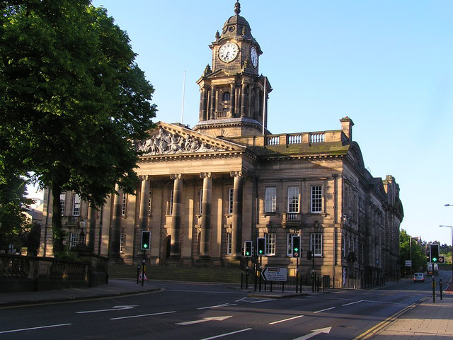 Photograph